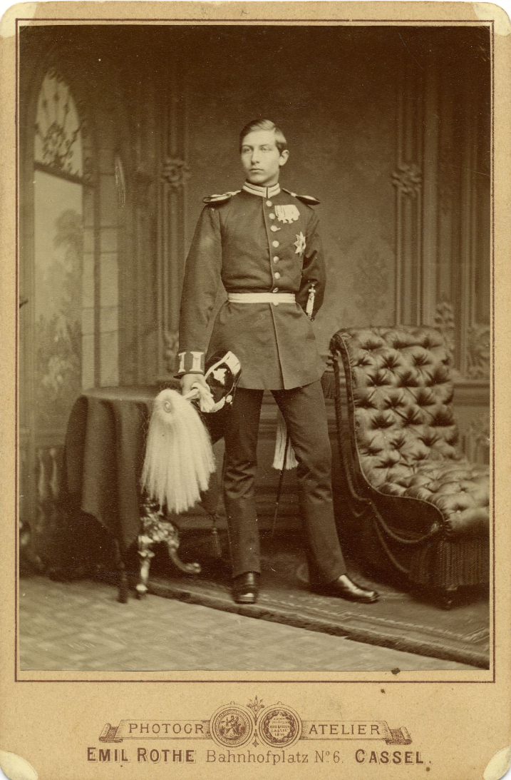 Wilhelm II is depicted as a student at the age of 18 in the year 1877.